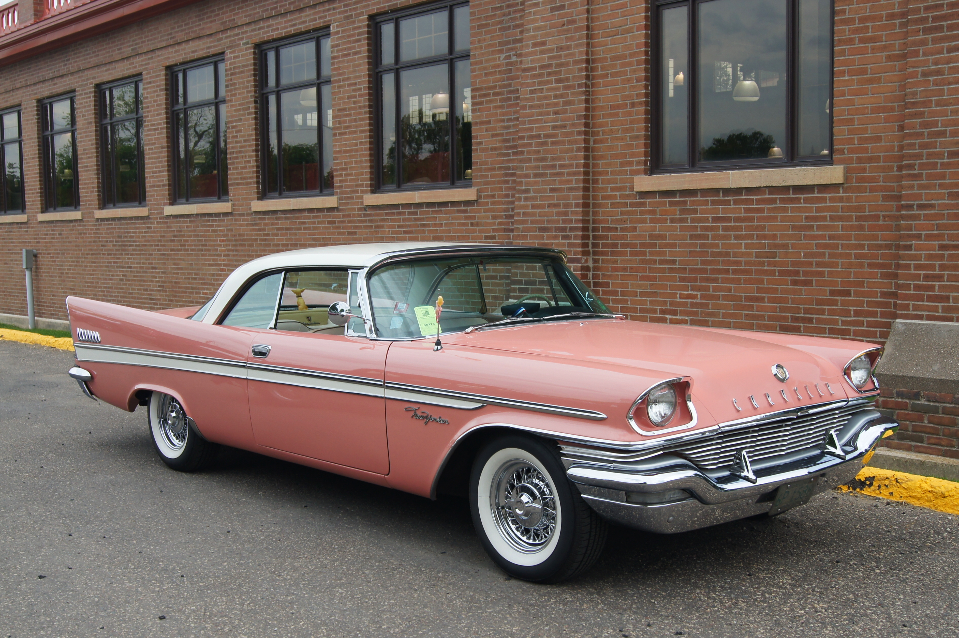 MSRA “BACK TO THE 50′s” 42nd Annual June 19-21, 2015 State Fairgrounds St. Paul Minnesota Click here for more car pictures at my Flickr site.